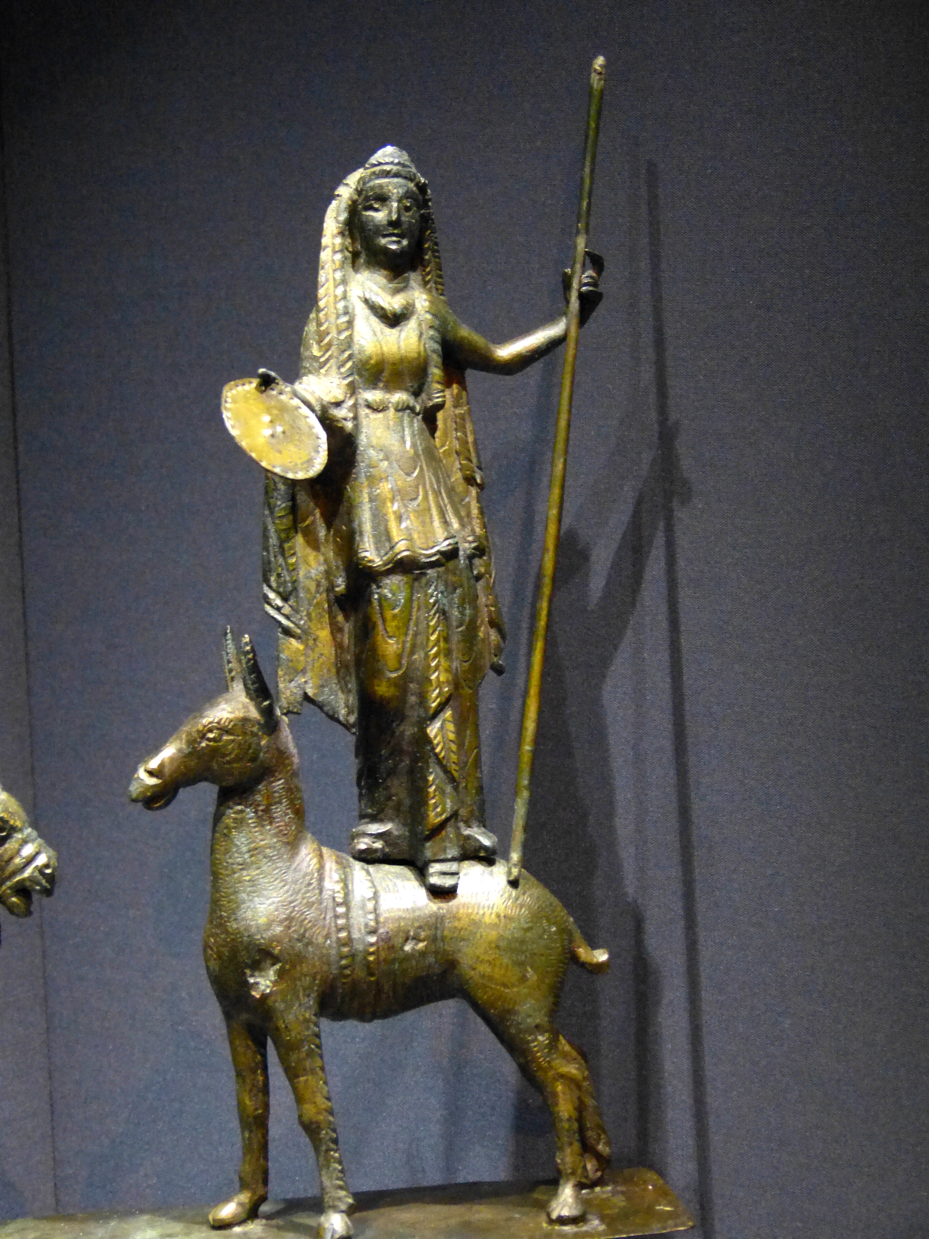 Vienna ( Austria ). Kunsthistorisches Museum: Iupiter Dolichenus hoard ( 2nd/3rd century AD ) from Mauer an der Url - Pair of statues ( detail ): Iuno Regina standing on a hind.